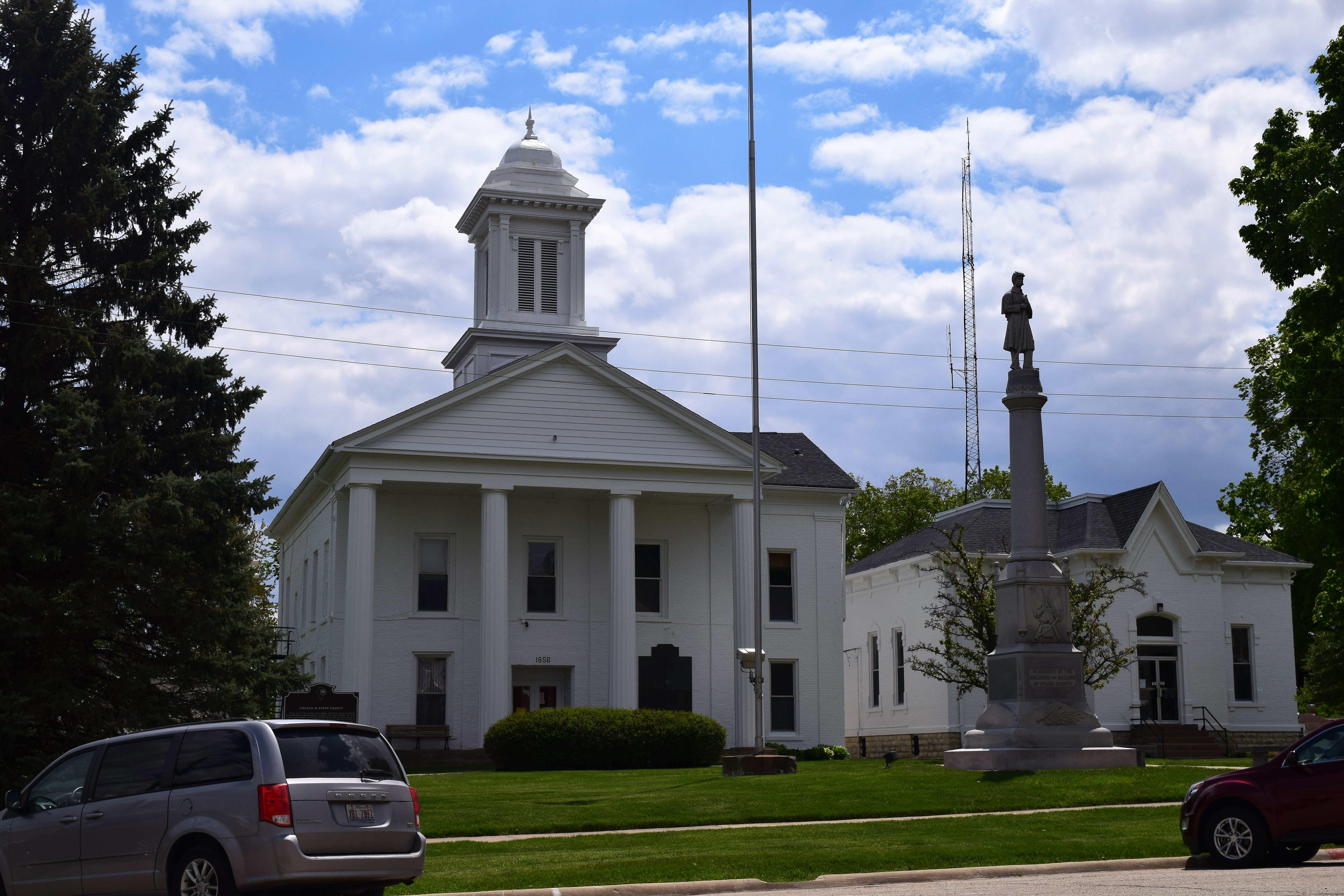 The Stark County Courthouse in Toulon, Illinois, including a veterans' memorial in front. The courthouse is the county courthouse for Stark County, Illinois.